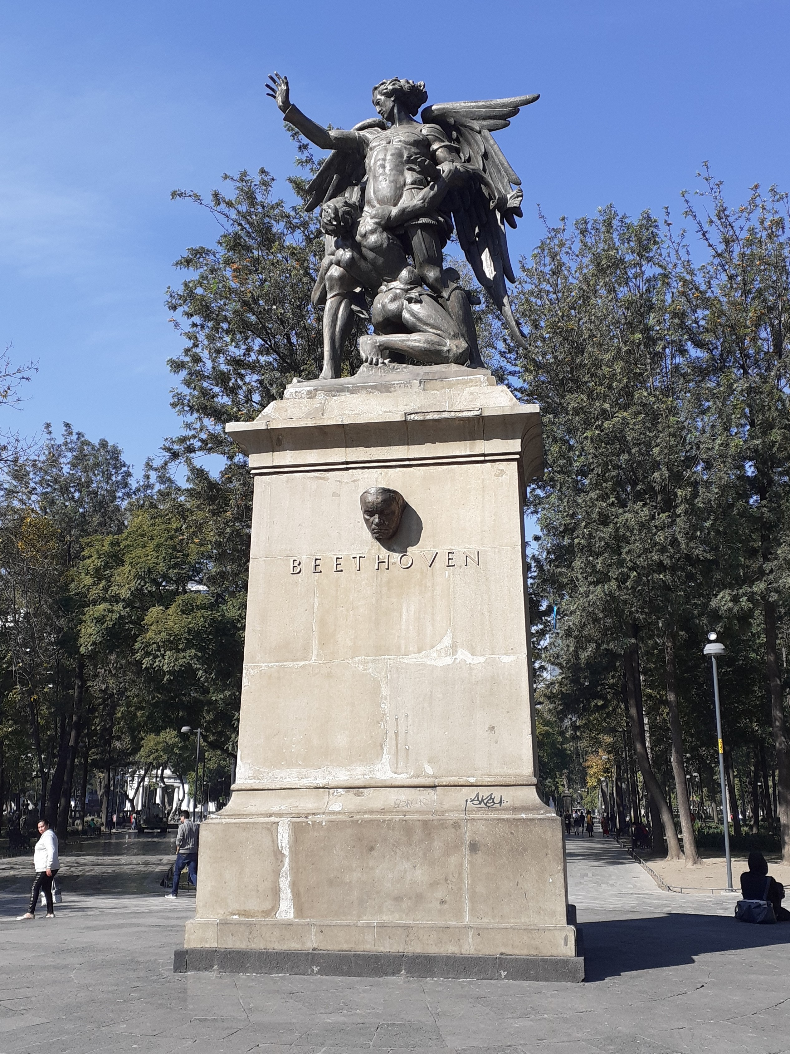 Monument to Ludwig van Beethoven located in the Alameda Central in Mexico City.